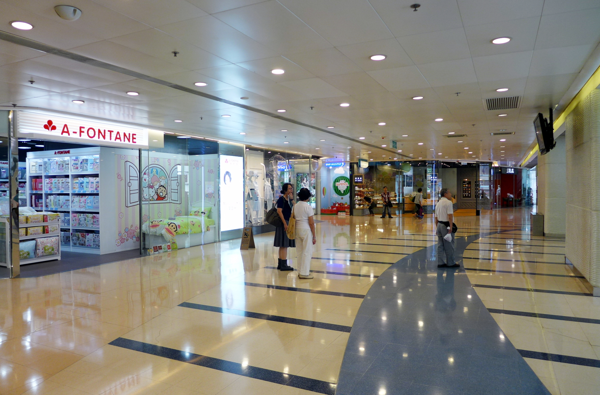 Island Resort Mall UG